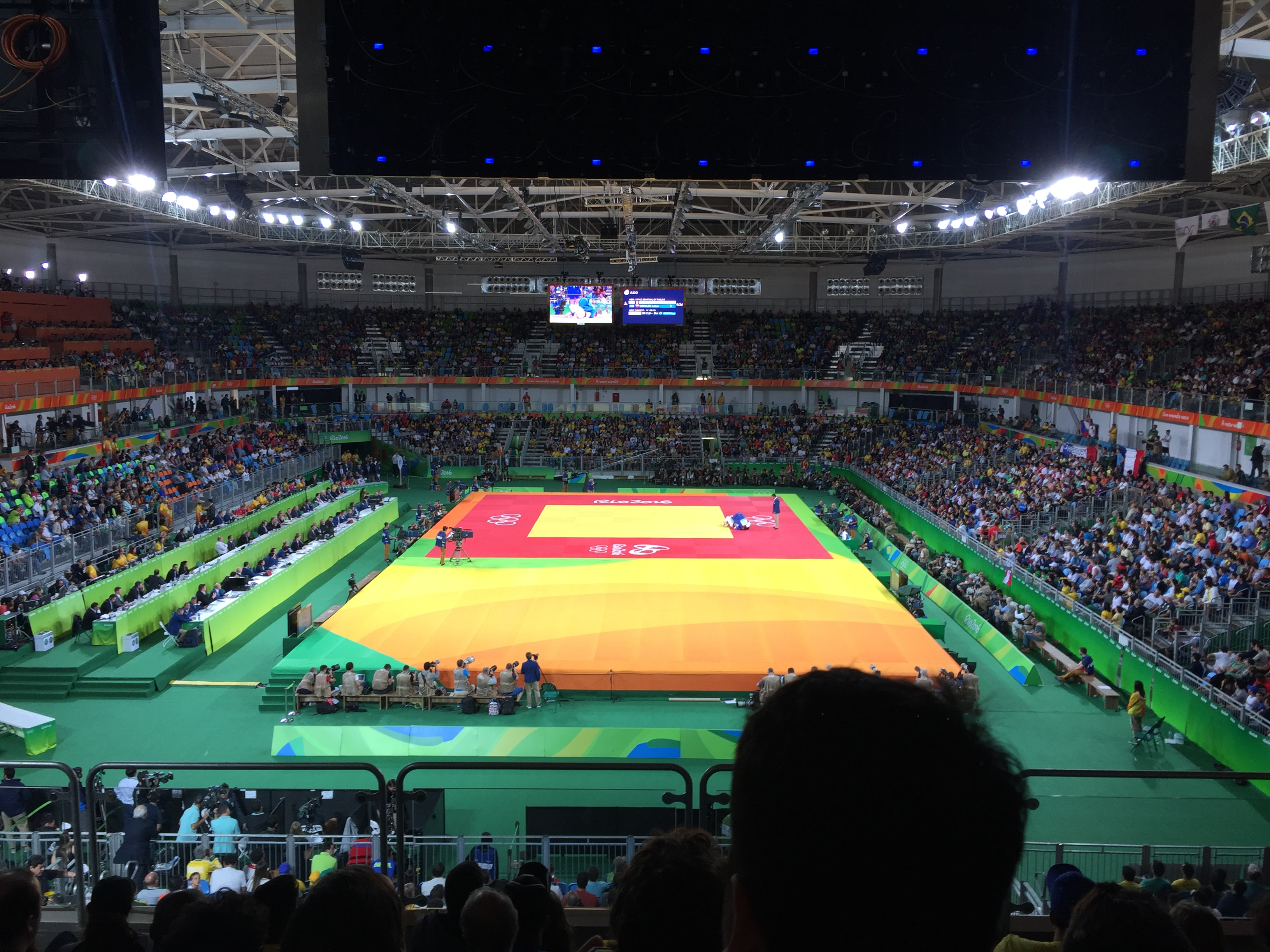 Rio 2016 Summer Olympics